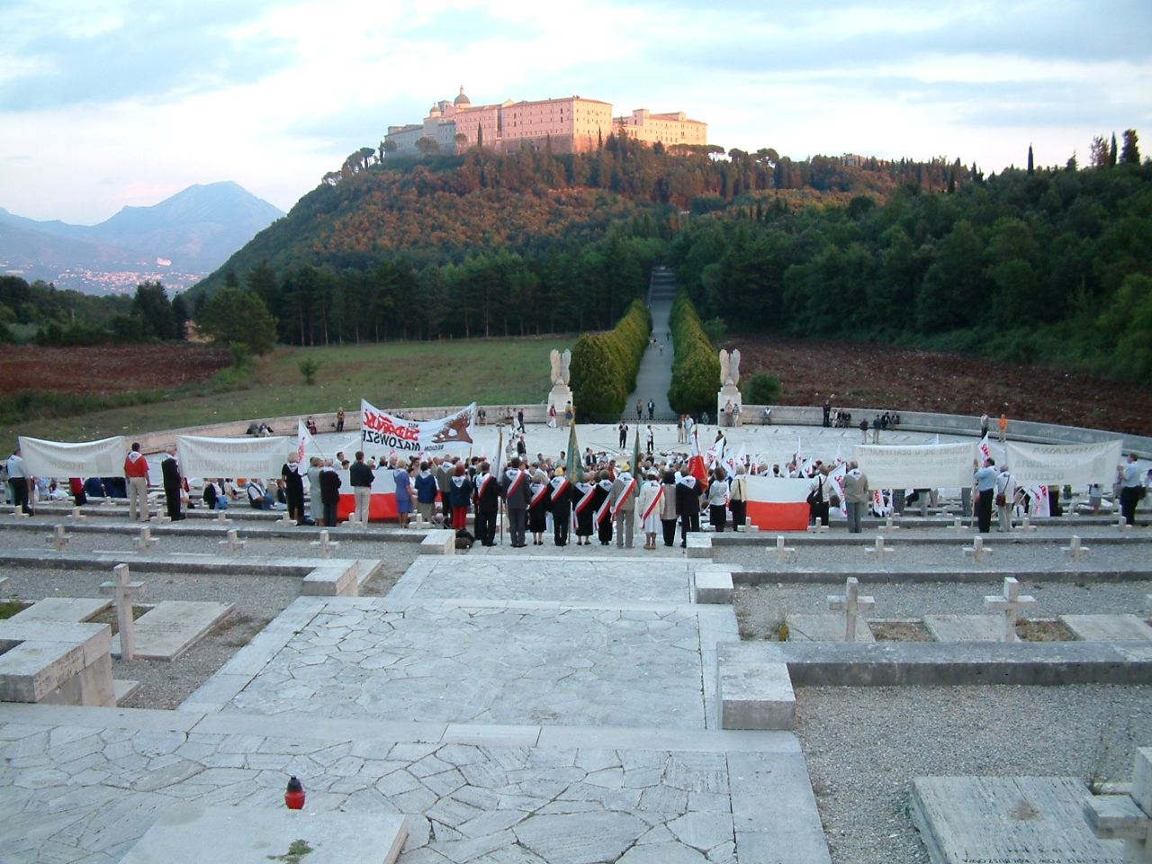 Polish War Cemetery at Monte Cassino